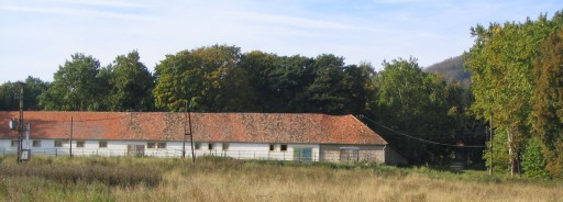 Porva, Hungary